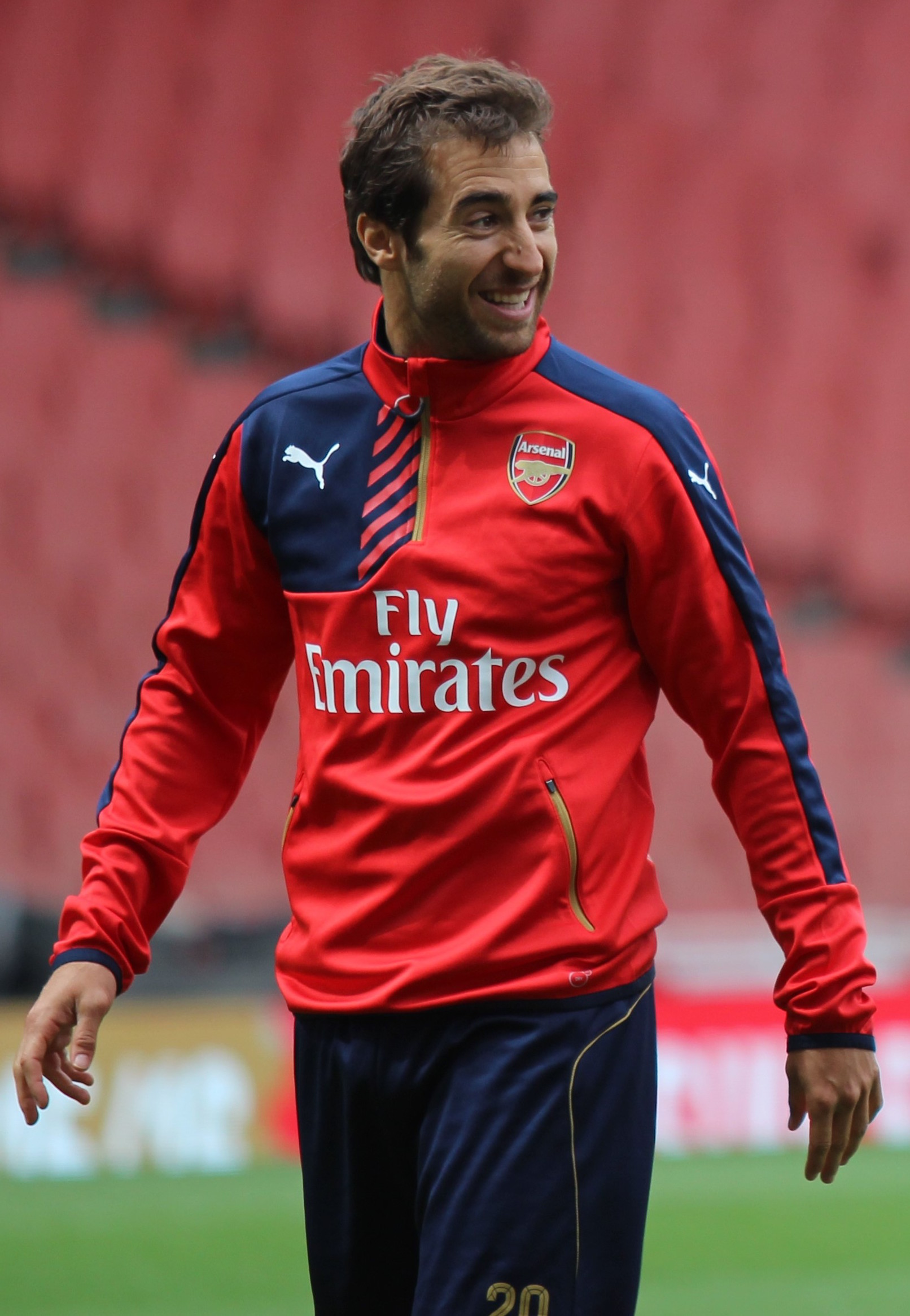 Mathieu Flamini of Arsenal in conversation during the 2015 Arsenal Members' Day Open Training Session.